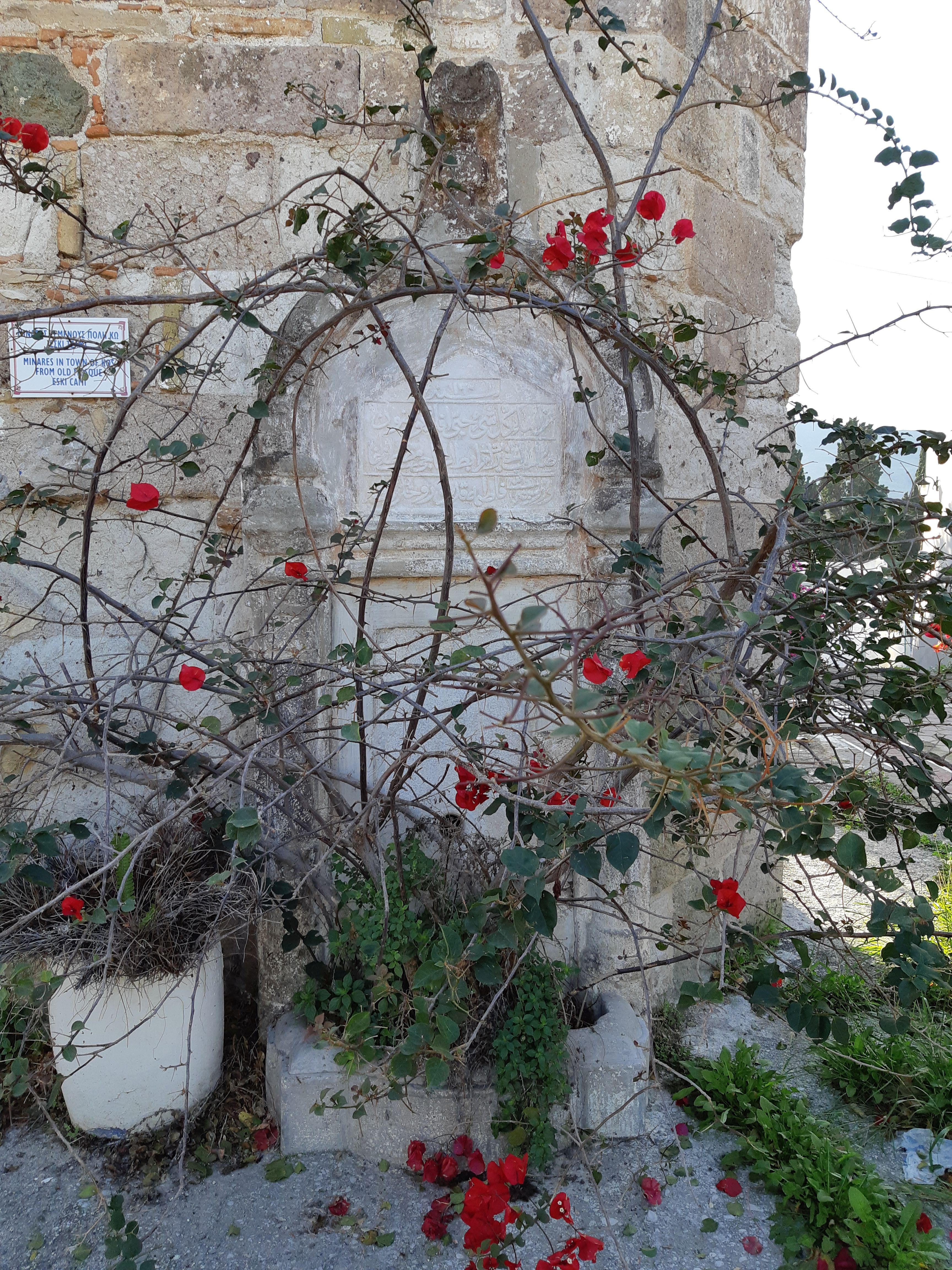 Destroyed Bab Gedid Mosque or Eski (old mosque) in the city of Kos on the Greek island of Kos.